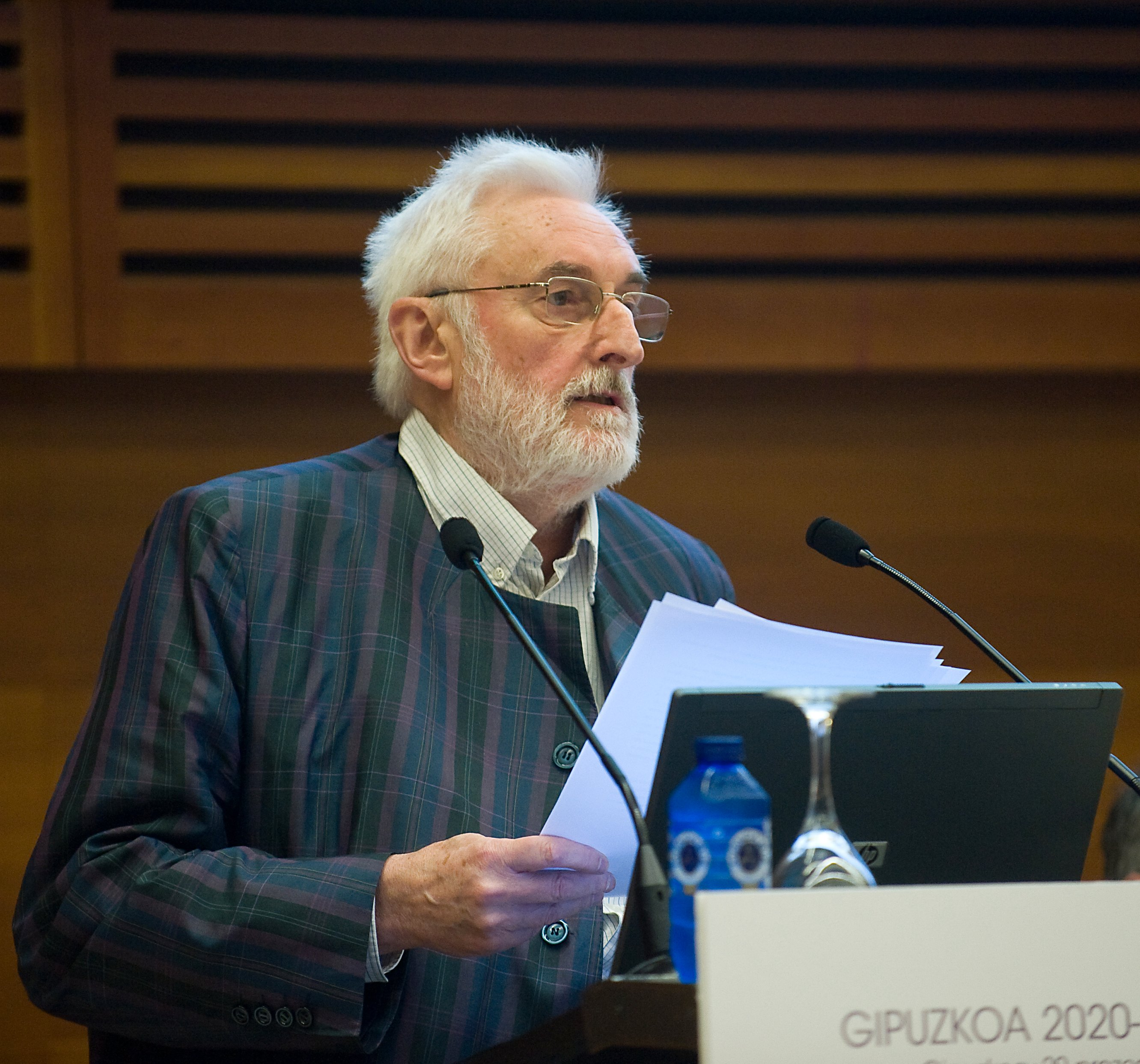 Javier Elzo talking in the Kursaal, Donostia-San Sebastian.